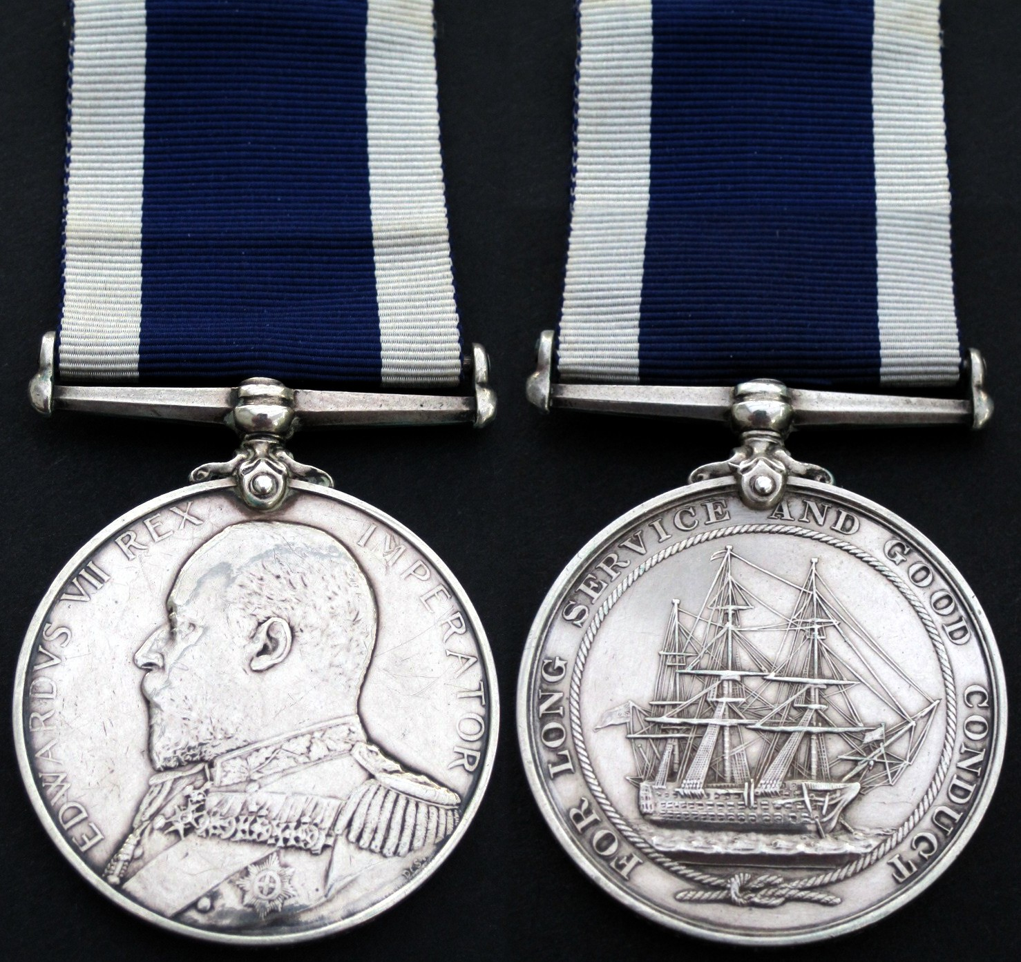 The King Edward VII version of the Naval Long Service and Good Conduct Medal (1848)